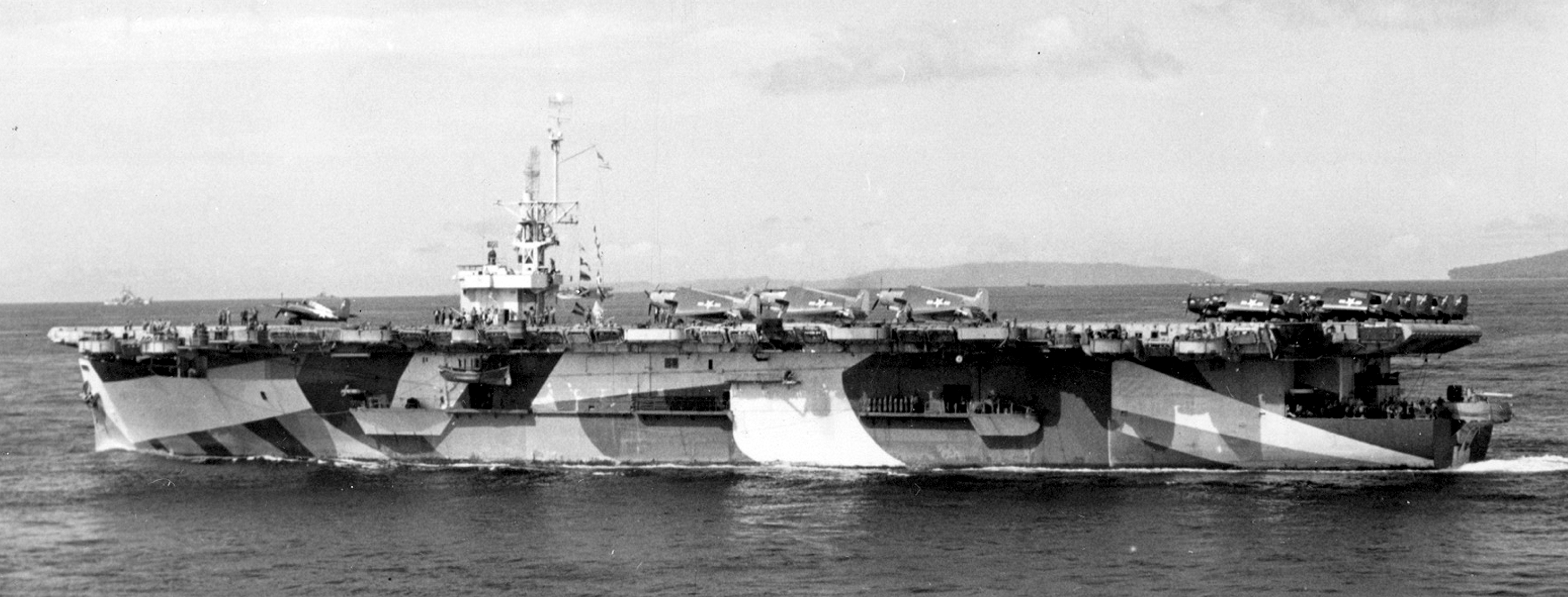 The Casablanca-class escort carrier Savo Island (CVE-78) enters the Sulu Sea on 3 January 1945, underway in support of the planned Lingayen Gulf landings on Luzon. Photographed from the battleship West Virginia (BB-48).